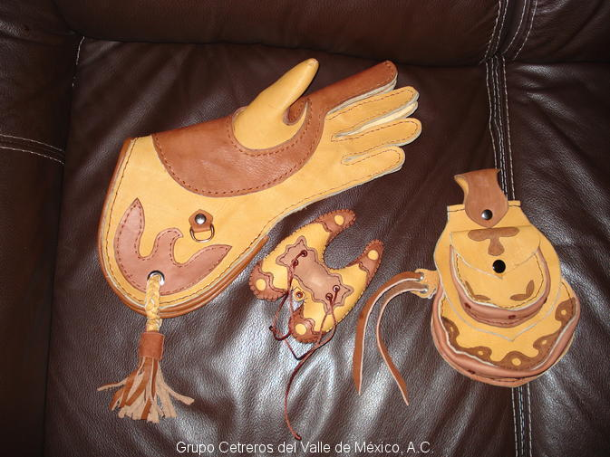 Falconry Kit